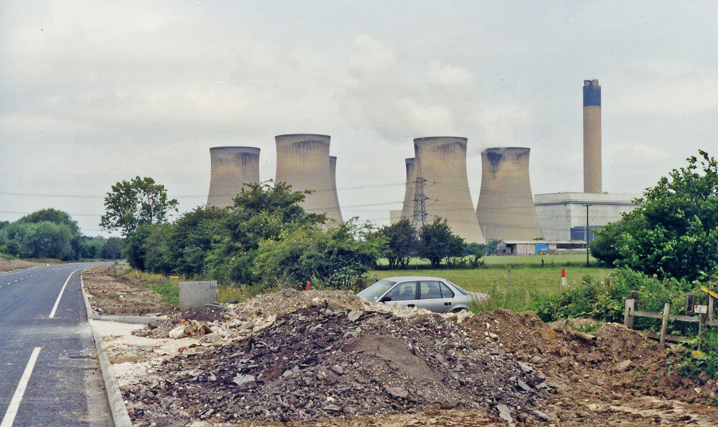 Site of Drax Hales station, 1992. View NW, towards Selby: ex-NER Selby - Goole line, all closed 15/6/64. Drax Power Station, visible ahead, is served by a loop (built in 1972) off a stretch of the ex-Hull & Barnsley line running westward from its junction with the ex-L&Y Wakefield - Goole line at Hensall.